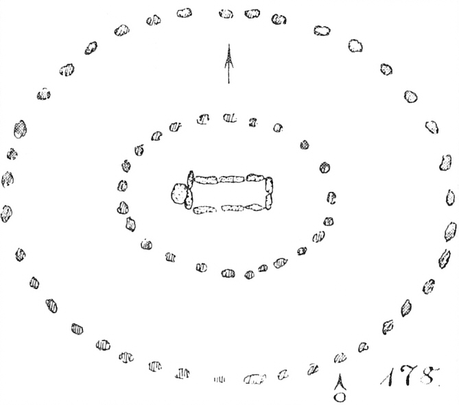 Outline of the dolmen Lüge, Saxony-Anhalt